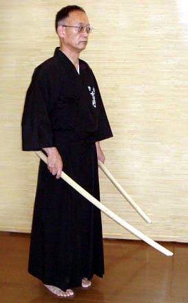 Masters Yoshimoti Kiyoshi, 12nd successor of Hyoho Niten Ichi Ryu